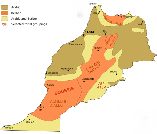 Volkeren in Marokko